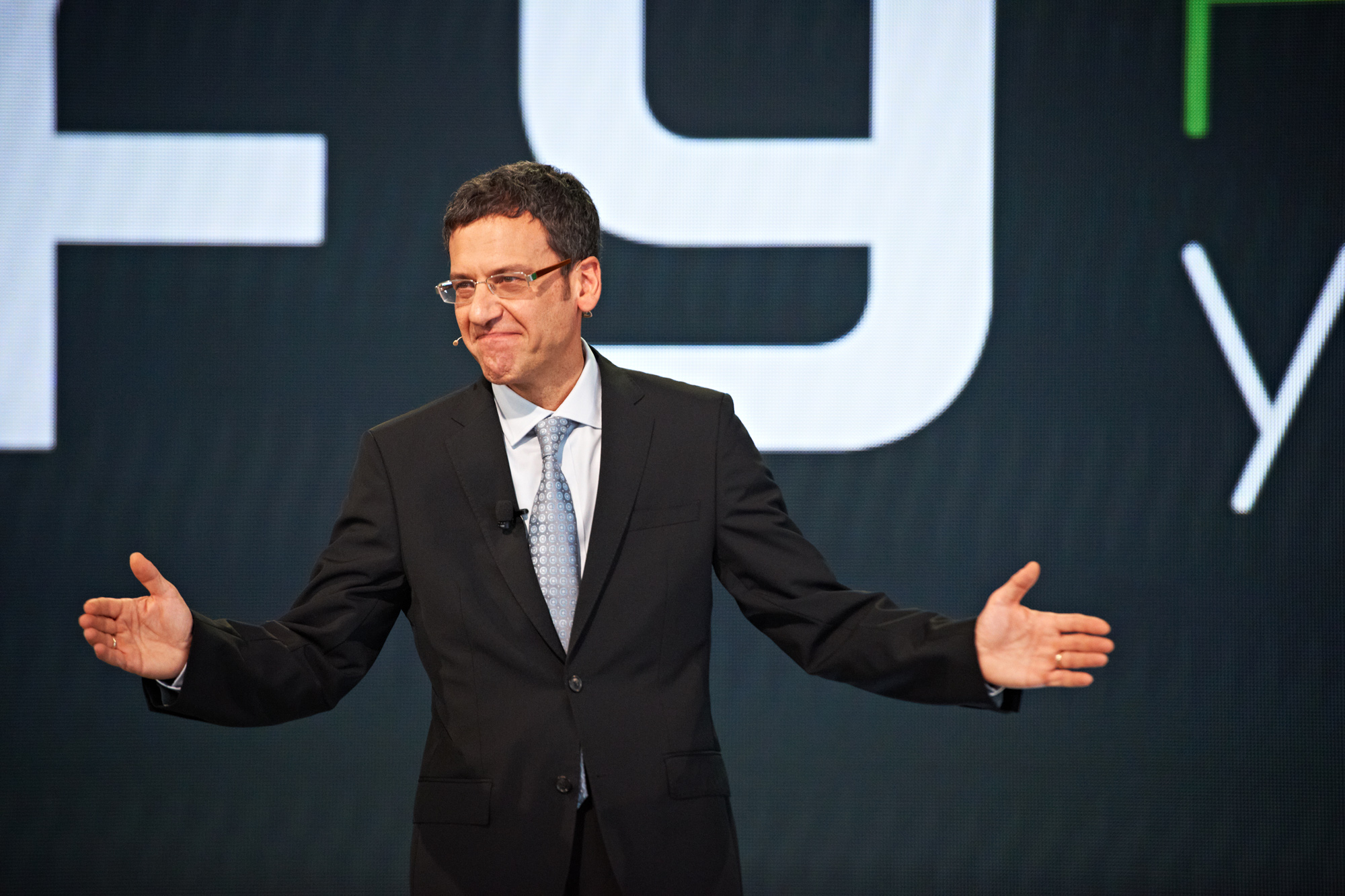 Profile of Hamid Akhavan